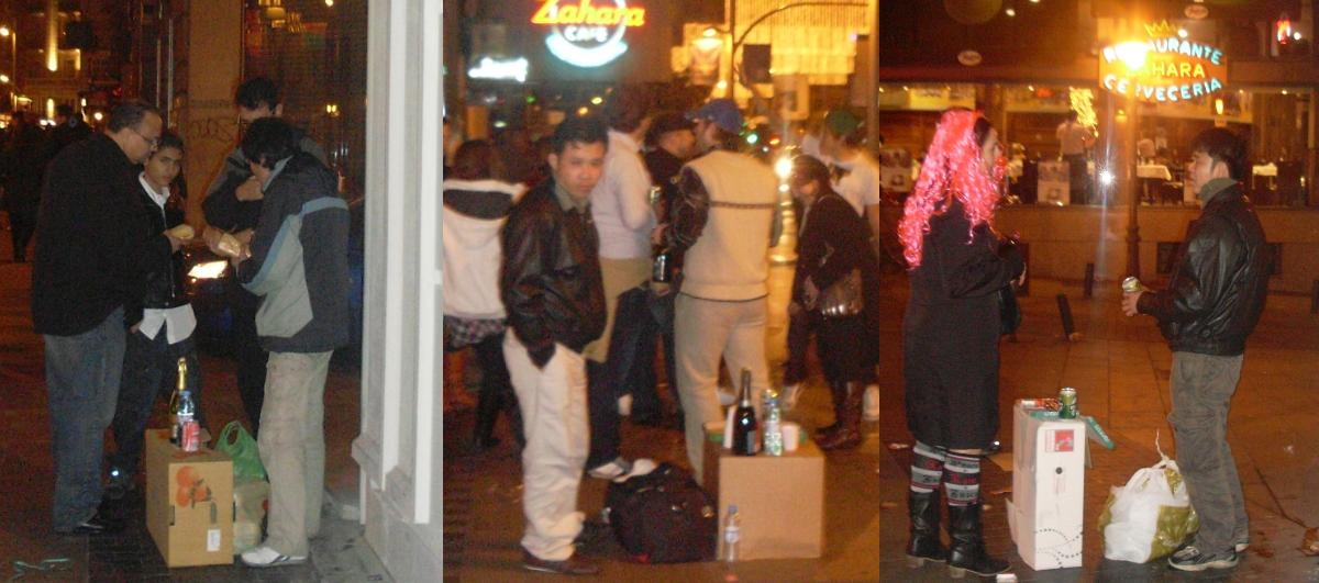 chinese people in spain